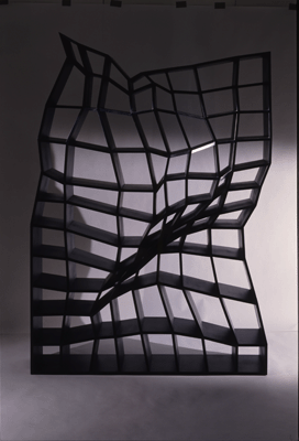 Verdi